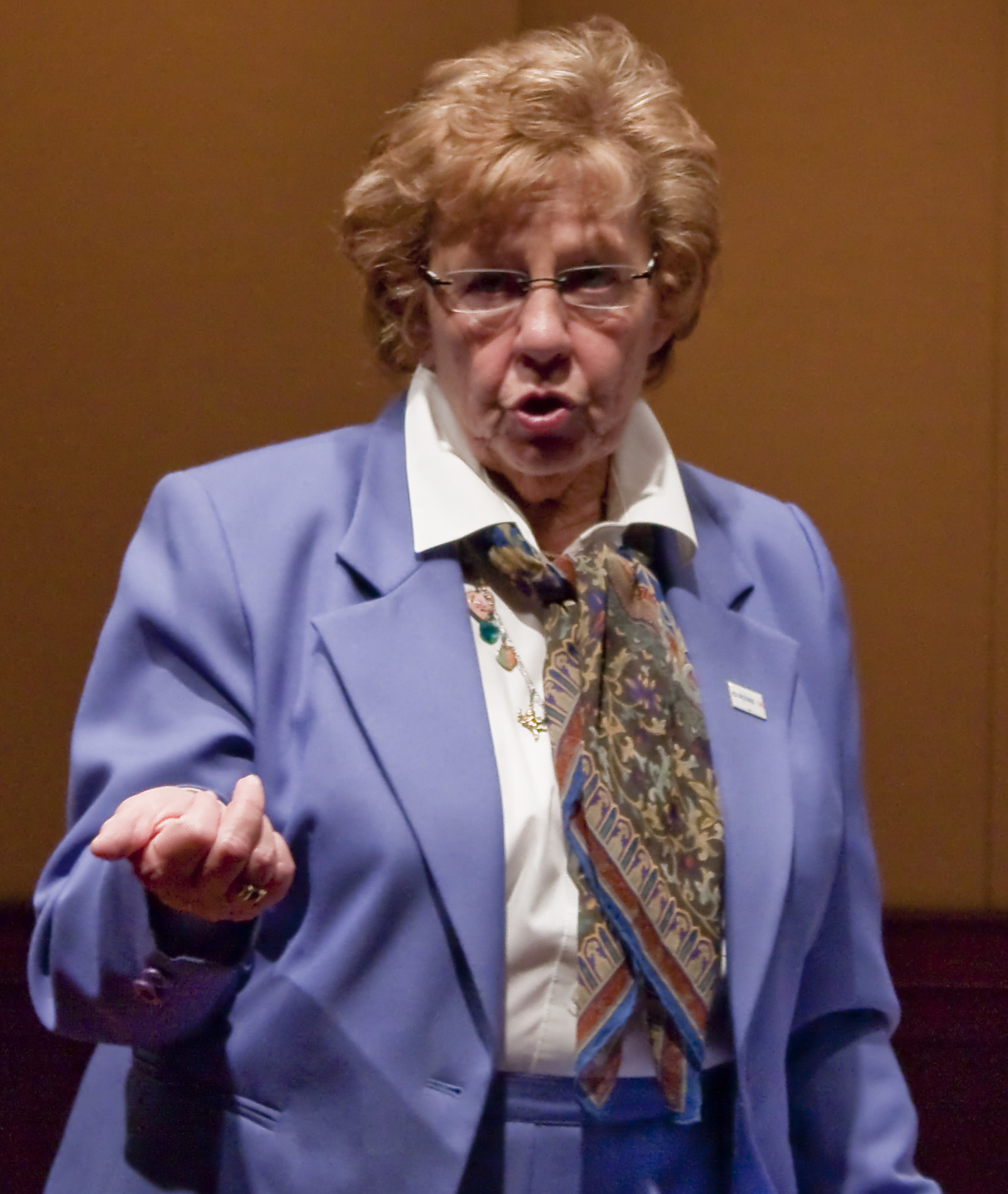 Loretta Weinberg at The College of New Jersey